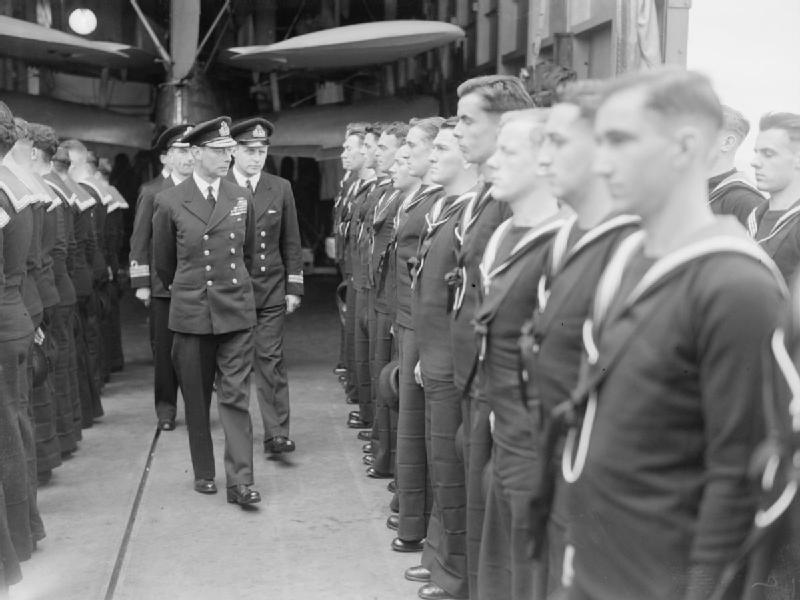 The King Visits the Home Fleet. 6 June 1942, on Board Ships of the Home Fleet. HM The King inspecting Fleet Air Arm personnel on the hangar deck of HMS MANCHESTER.